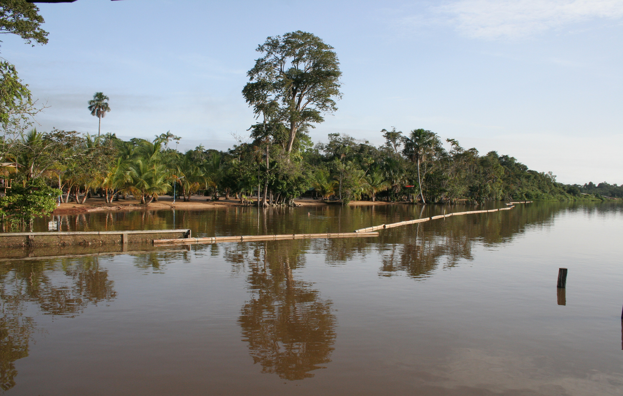 Overbridge holiday resort, Suriname river, Suriname. Floating anti-piranha nets around a swimming area.